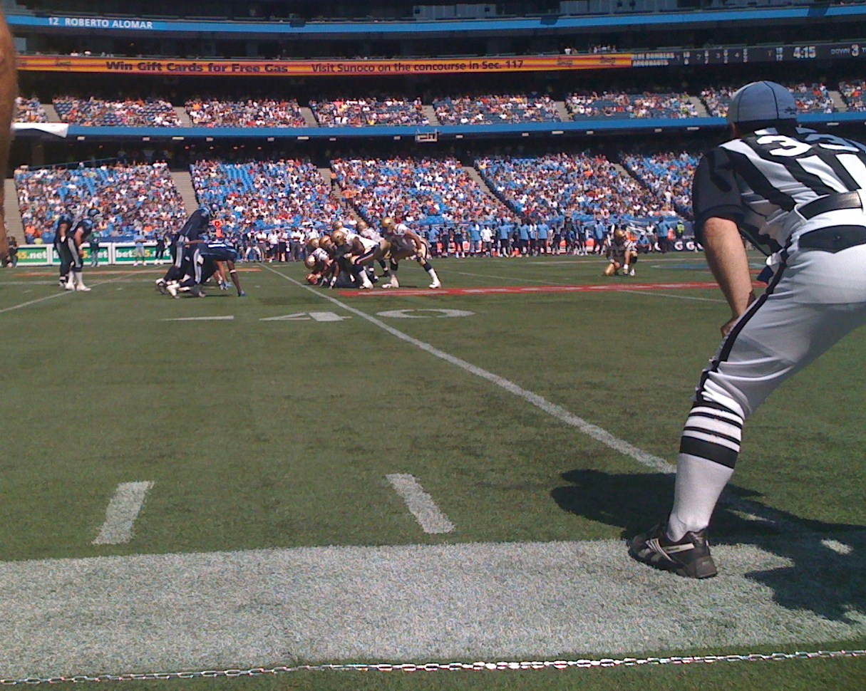 Toronto Argonauts line up to defend against a Winnipeg Blue Bombers field goal attempt late in the fourth quarter in a Canadian football game at the Rogers Centre, 1 August 2009.